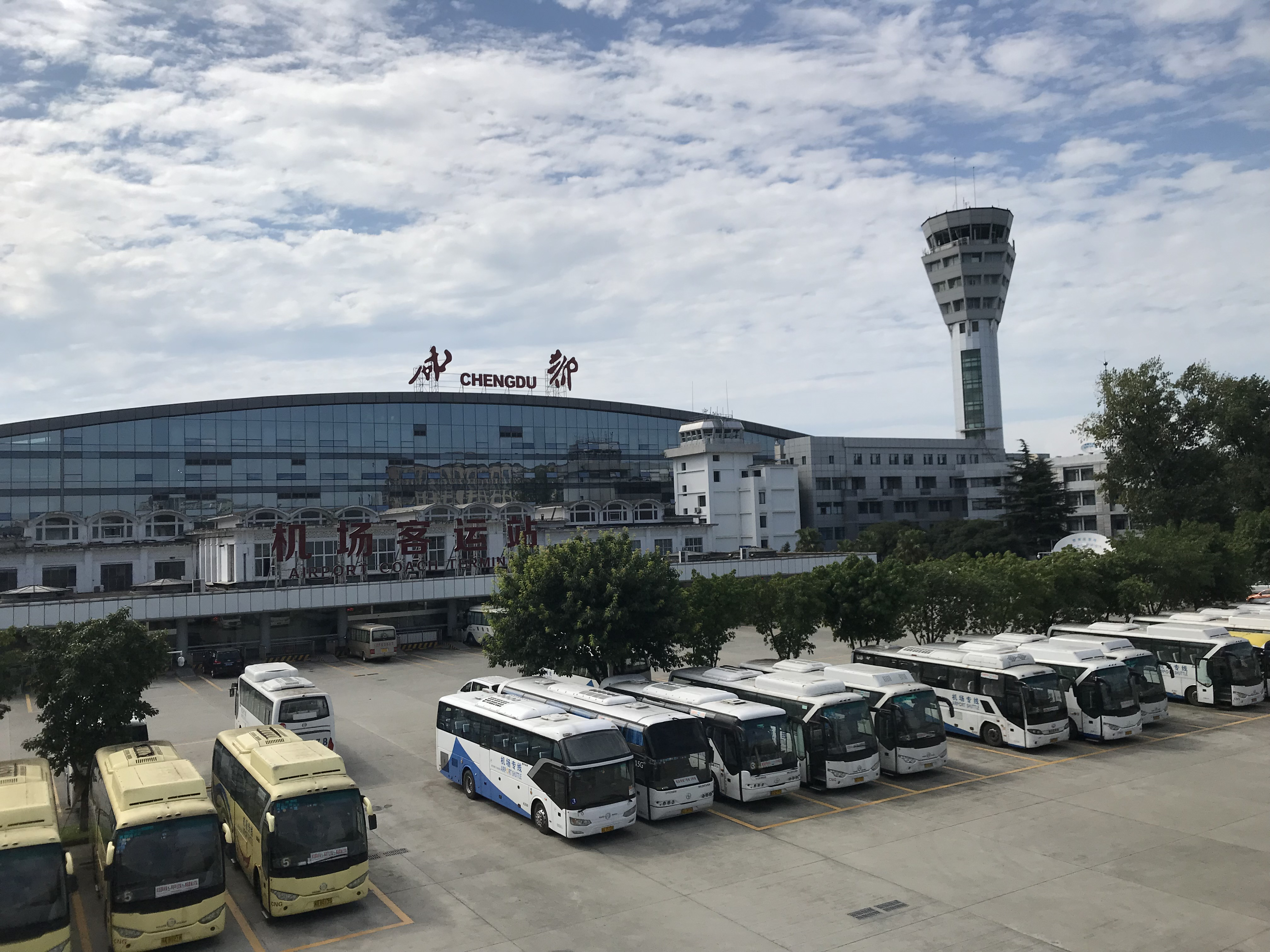 Formerly the branch line terminal of CTU